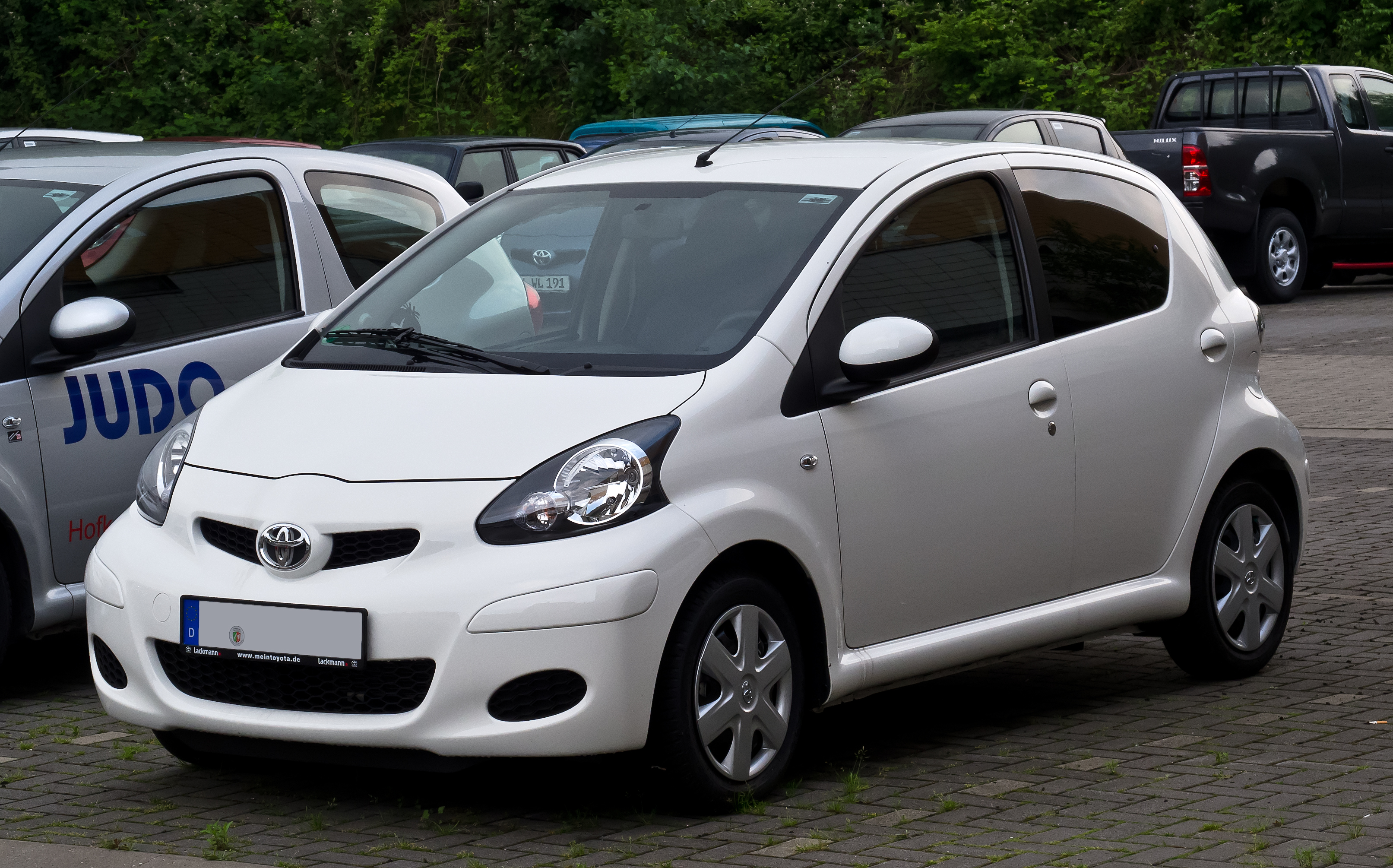 Toyota Aygo (Facelift)